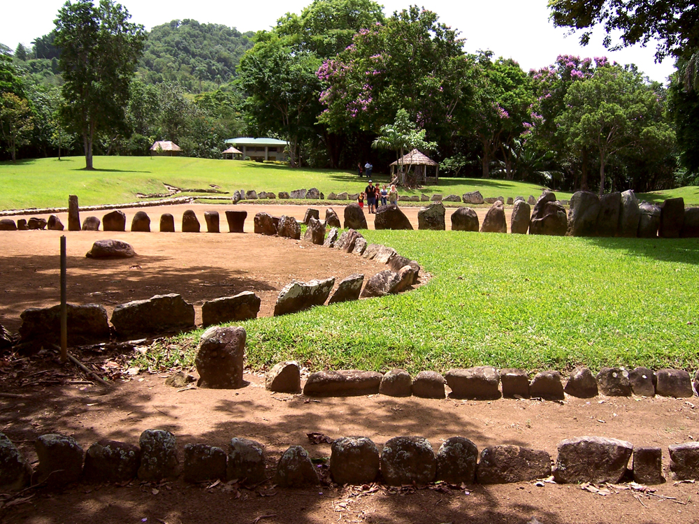 a view of the park